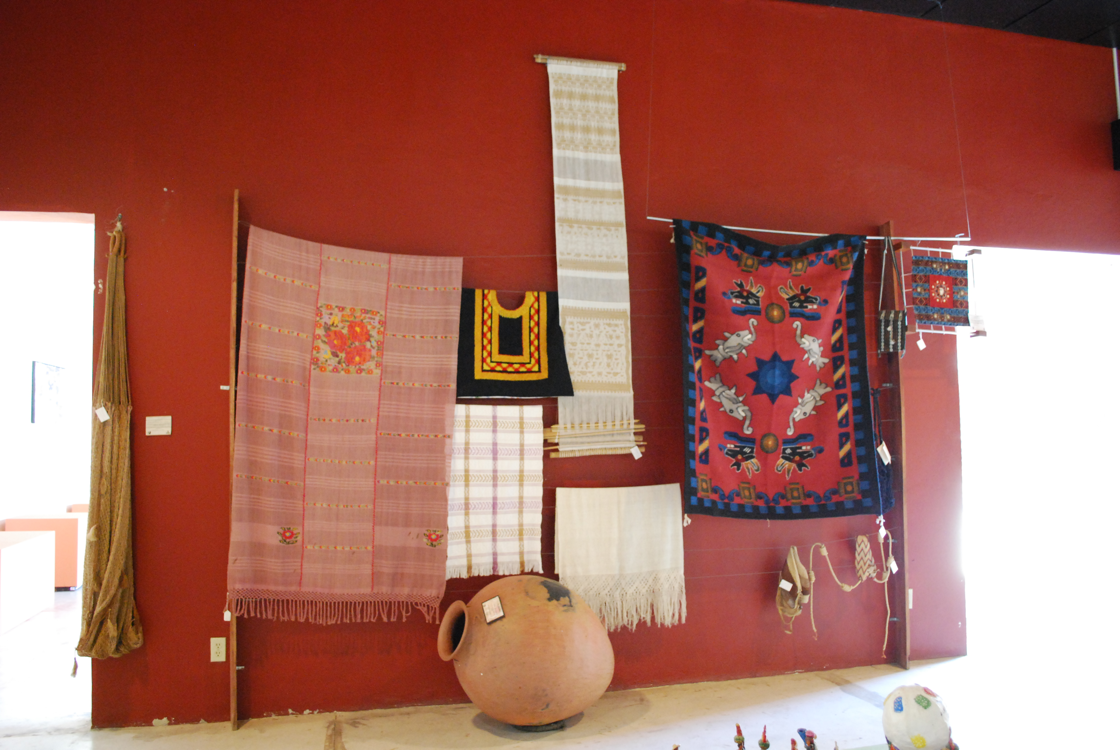 Wall with textiles at Museo Estatal de Arte Popular de Oaxaca in San Bartolo Coyotepec, Oaxaca, Mexico. See COM:CRT/Mexico#Freedom of panorama